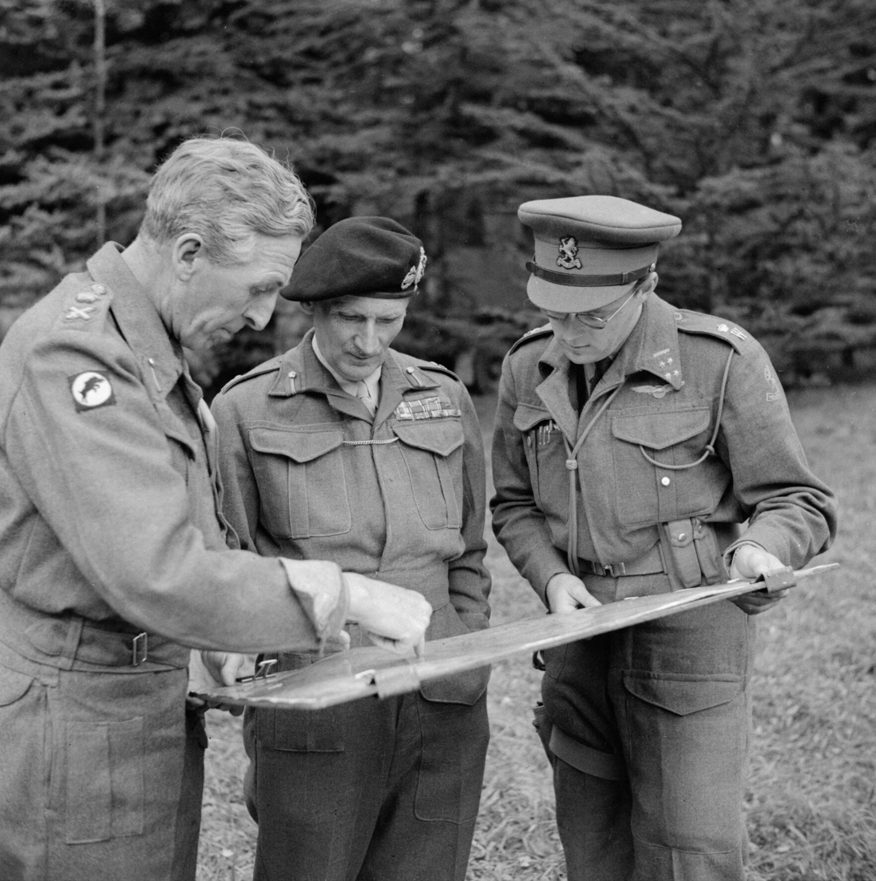 The British Army in North-west Europe 1944-45 Field Marshal Montgomery studies a map with Lt-Gen Horrocks, GOC XXX Corps, and Prince Bernhard of the Netherlands, GOC all Dutch forces under Monty's command, 8 September 1944.